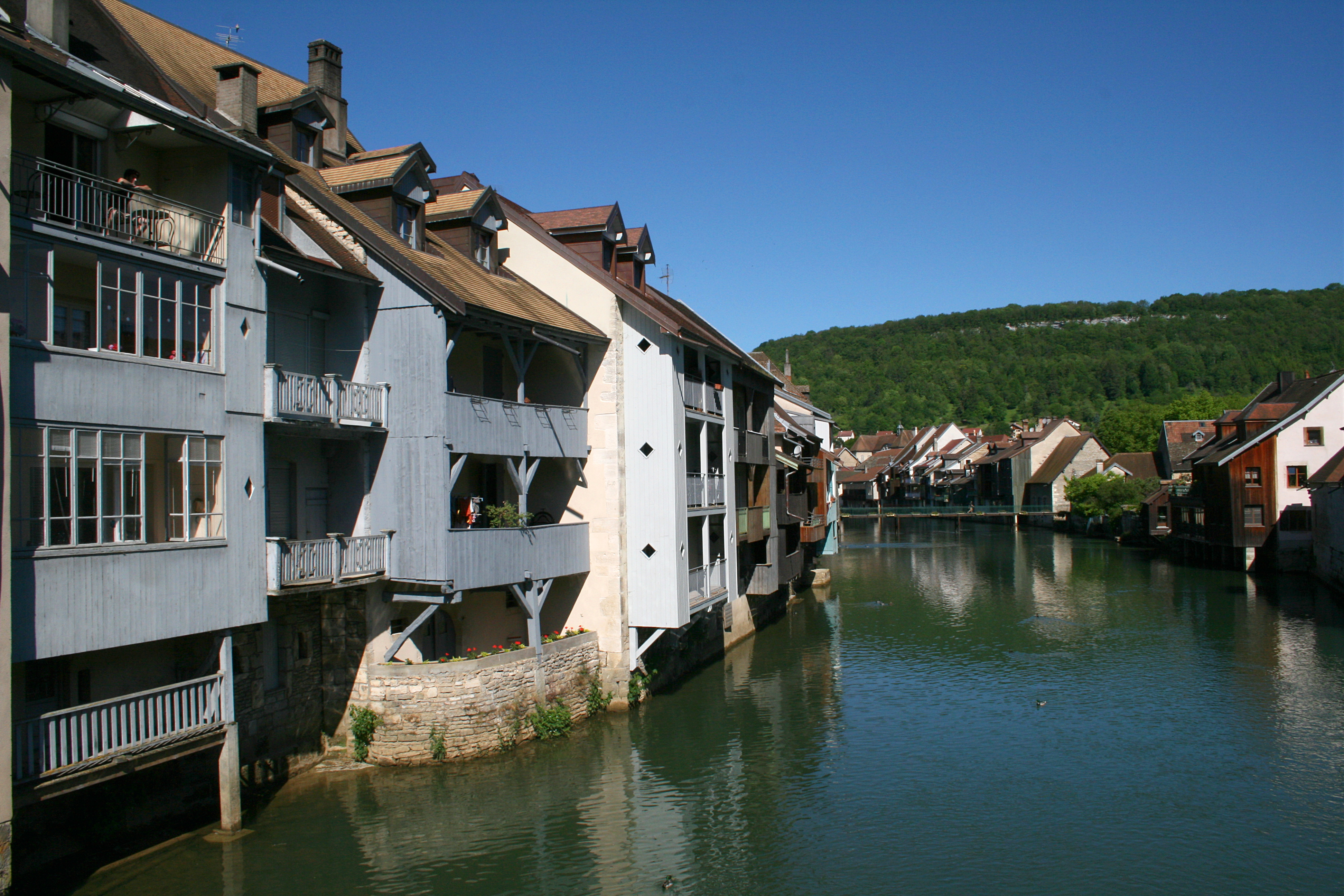 Ornans (Doubs - France), neighborhoods along the Loue (river).